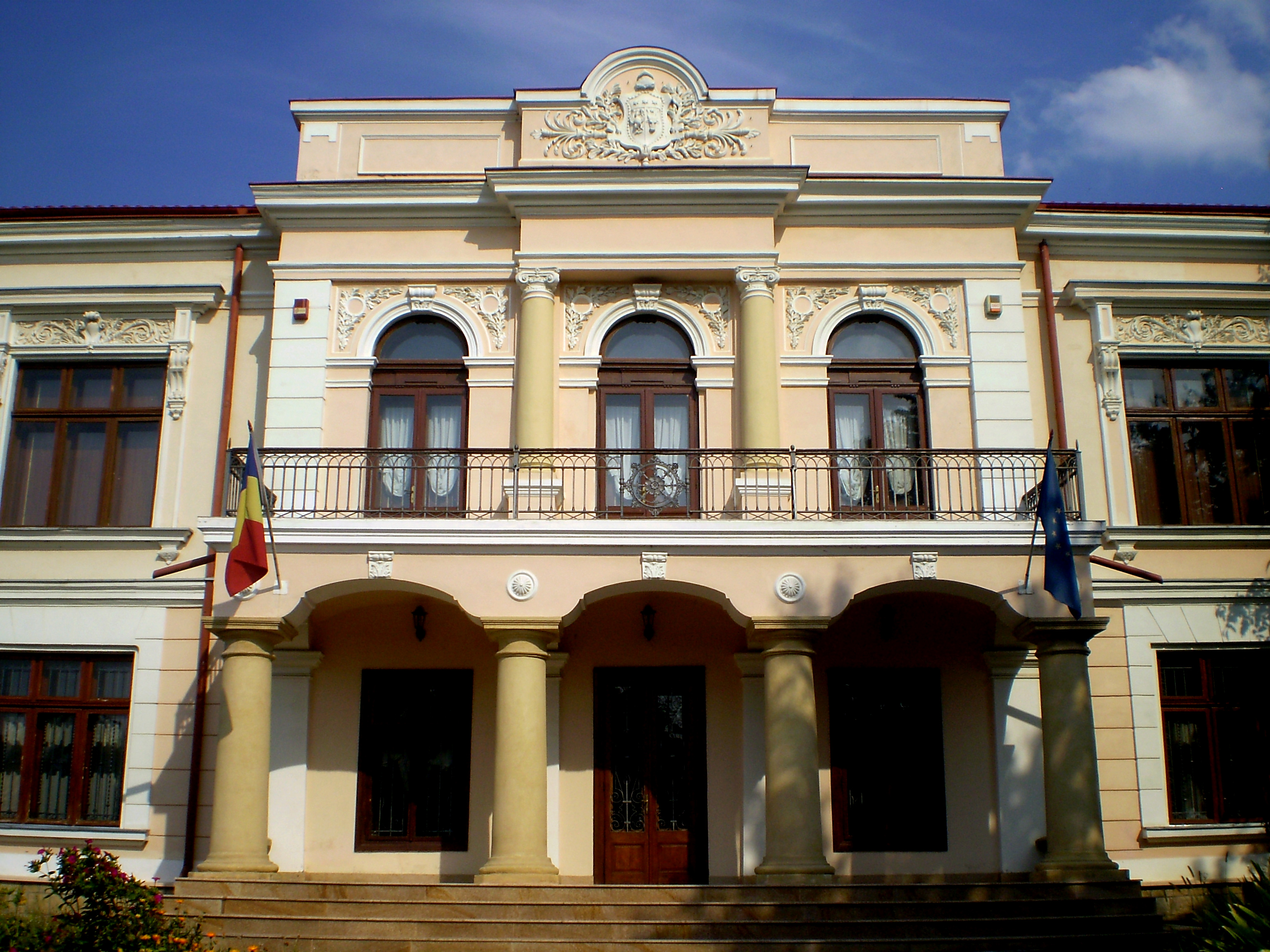 Romanian Literature Museum , Pogor House , Iaşi , Romania